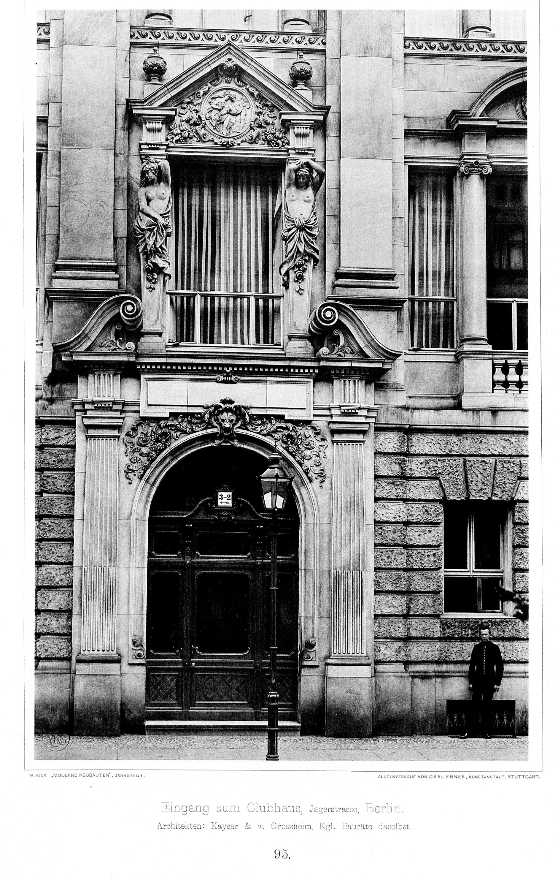 Club house at Jaegerstrasse, Entrance, Berlin, Architect Kayser & v. Groszheim, Kgl. Bauraete Berlin, panel 95, Kick volume II